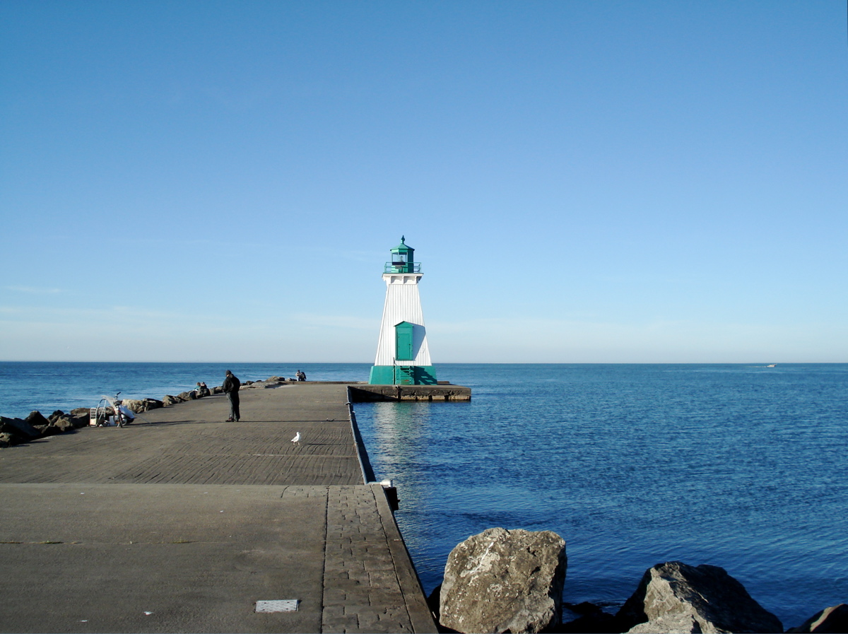 Port Dalhousie lighthouse on the shores of Lake Ontario.